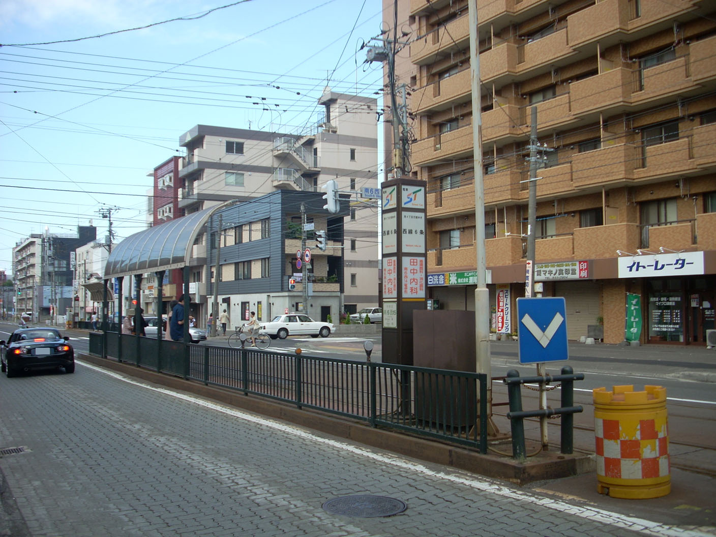 Sapporo street car Nishisen rokujo station, Chuo-ku, Sapporo, Hokkaido, Japan